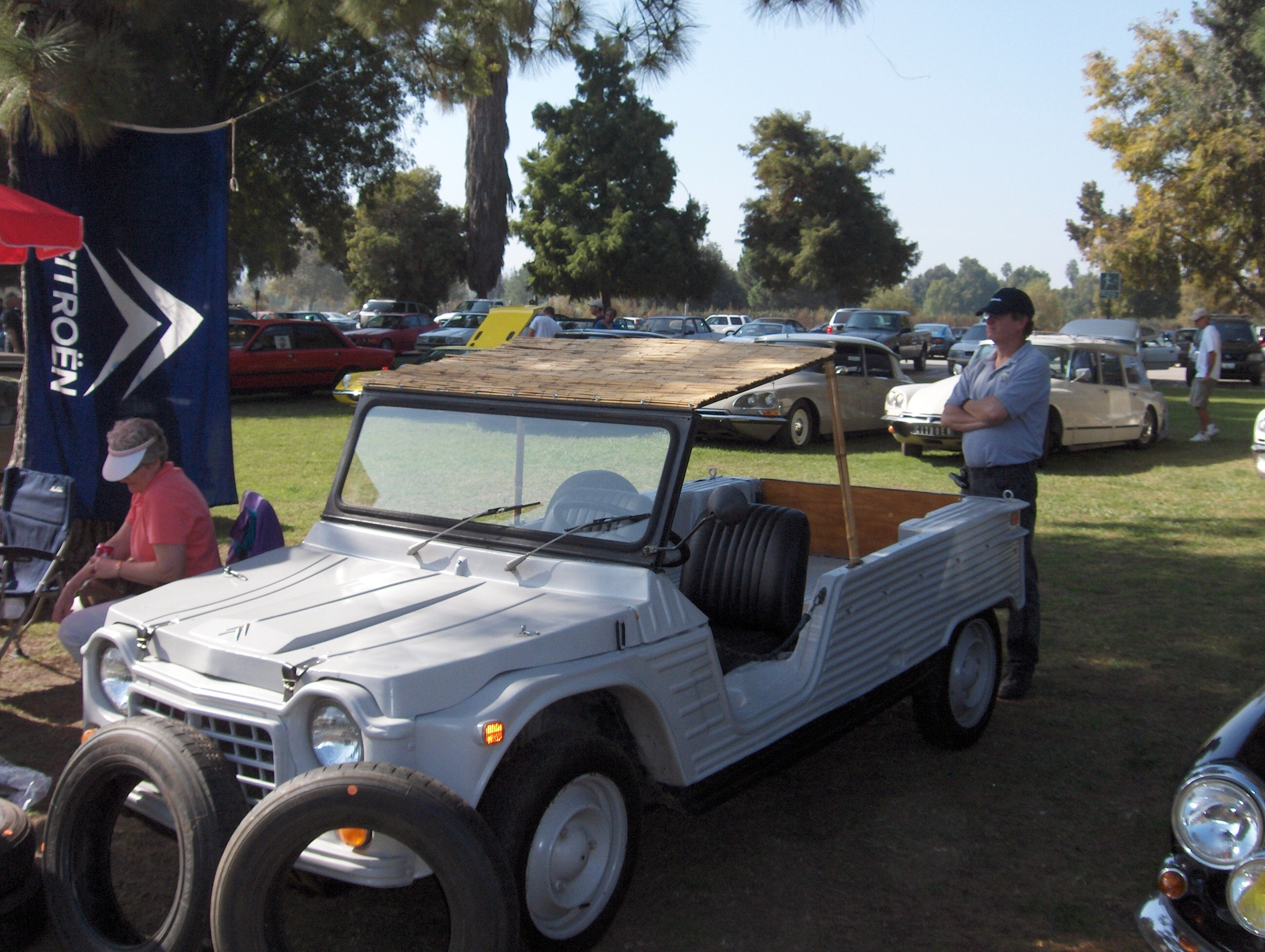 I took this photo in a public location.